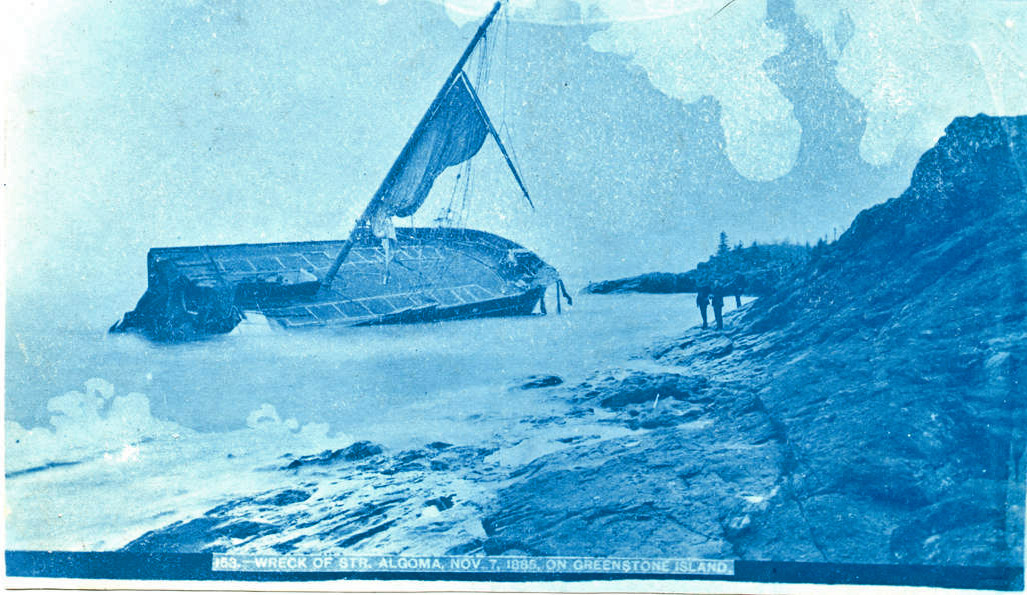 Wreck of the Steamer Algoma off Isle Royale